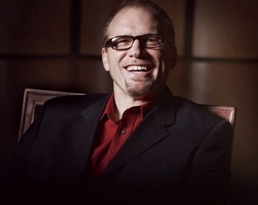 Posed laughing